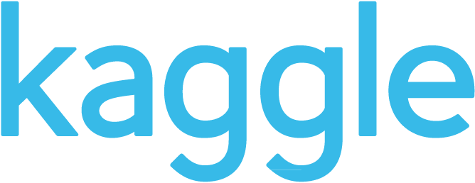 Kaggle logo